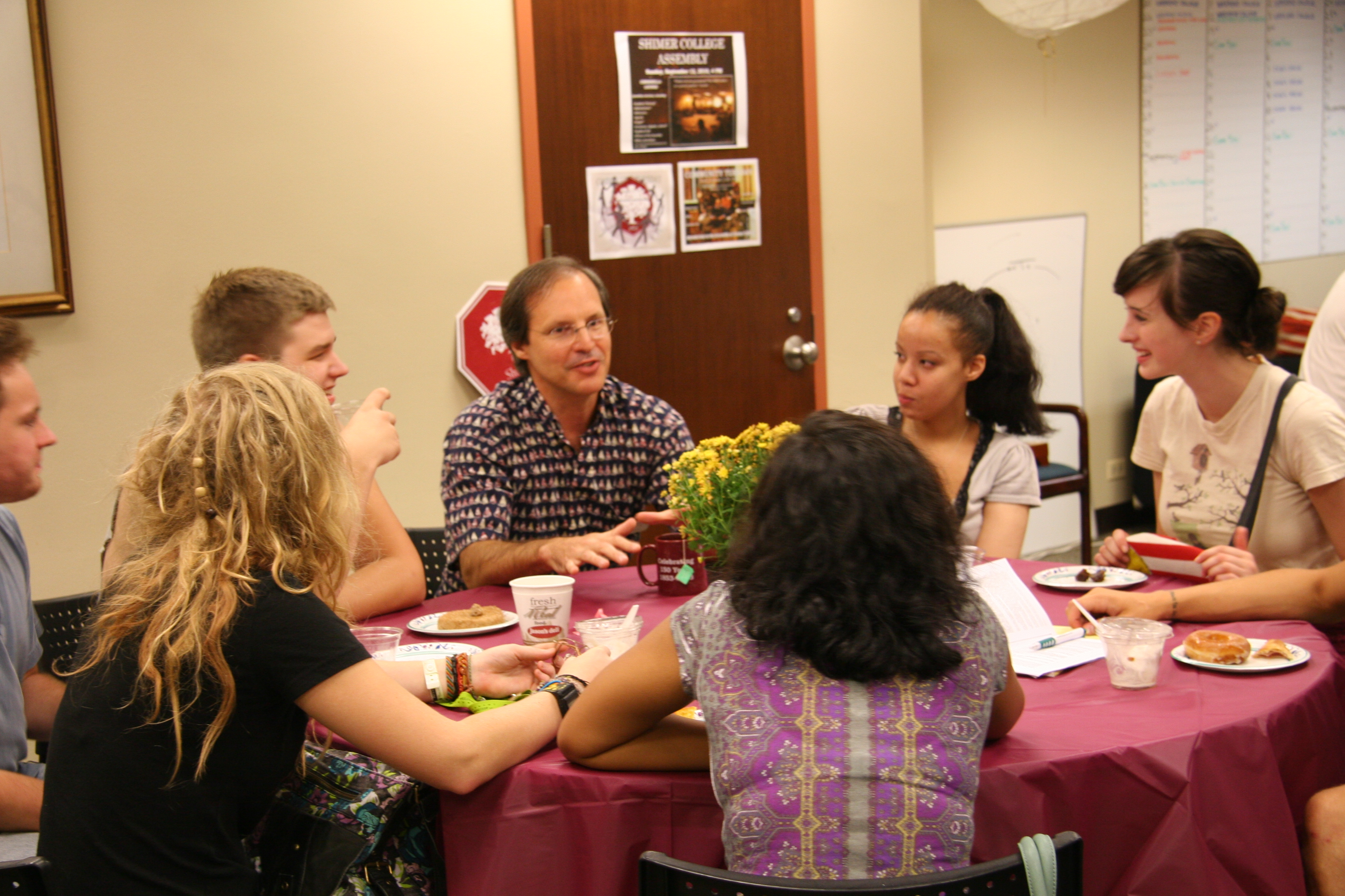 Shimer College professor Jim Ulrich converses with students over a meal at the school's Chicago campus during student orientation in August 2010.